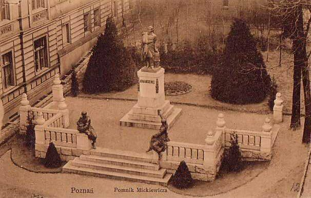 Adam Mickiewicz monument in Poznań, Poland; author of the monument: Władysław Oleszczyński